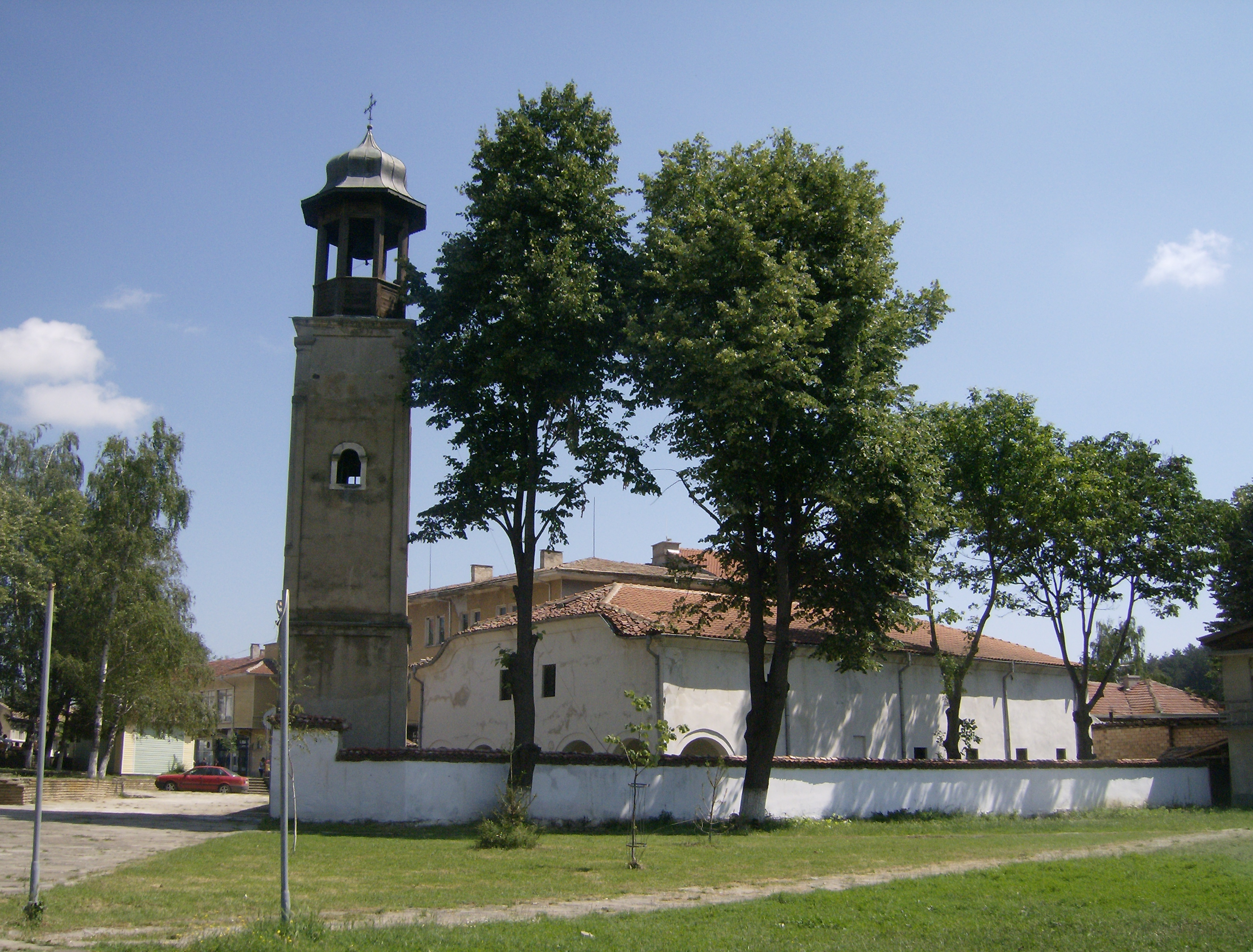 Church of St. Demetrius of Thessaloniki in Varbitsa, Bulgaria